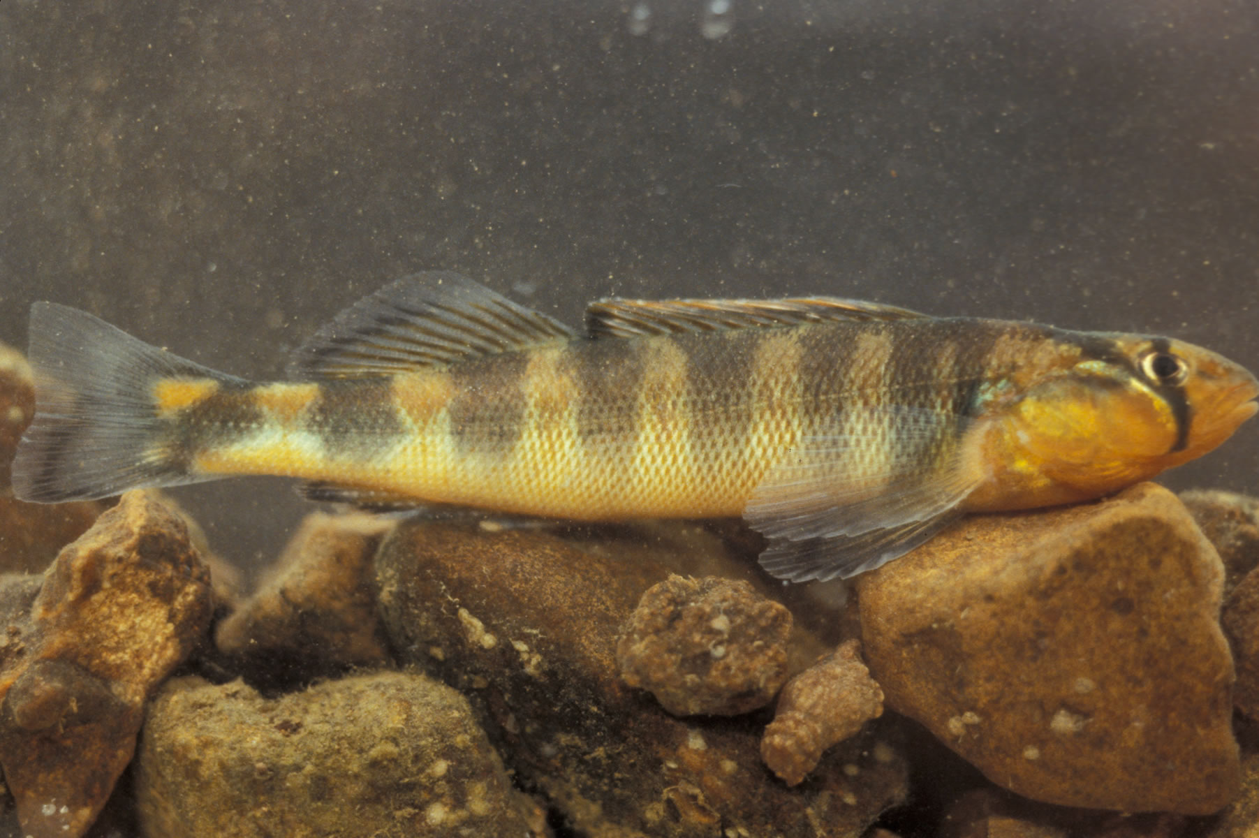 Percina evides USFWS photo